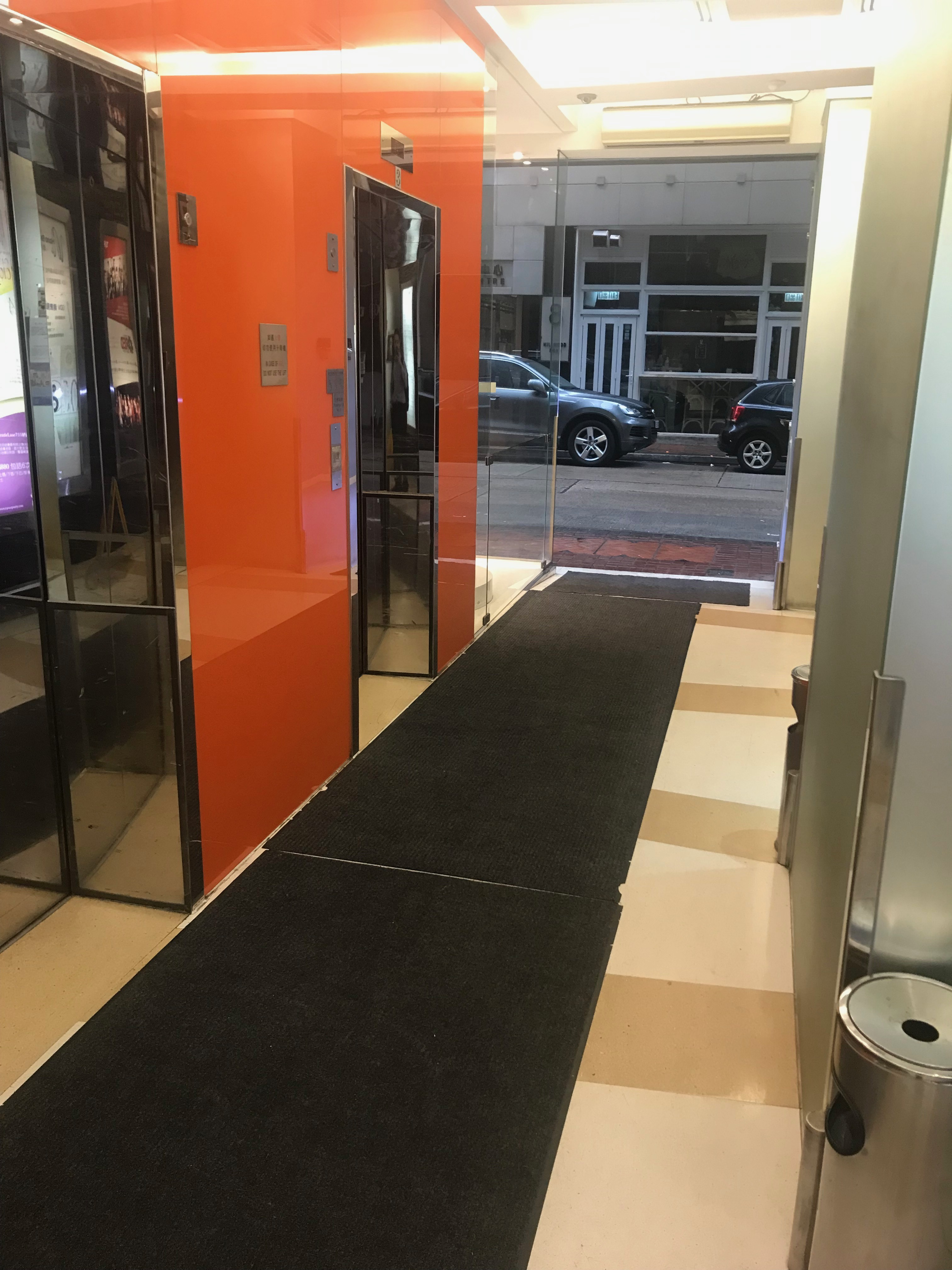 漢國佐敦中心地下大堂